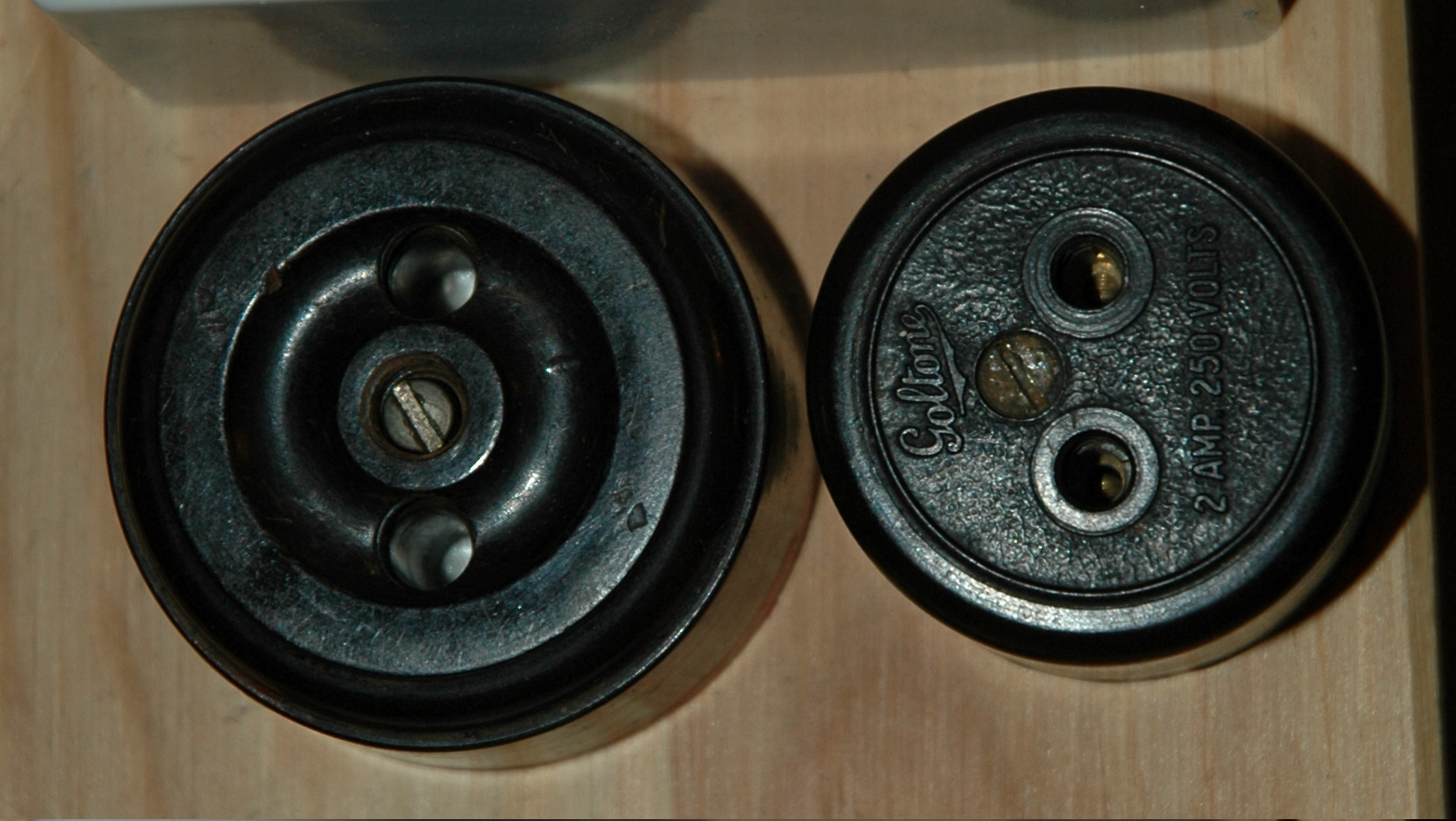 BS 546 un-shuttered 5A and 2A 2 pin sockets. Andrew Morgan, 2005. Misc The screw shown in the 5A socket is not the original, it doesn't even hold the parts together. I added it for the photo to remove any confusion because without a screw it looks like a 3 hole socket.